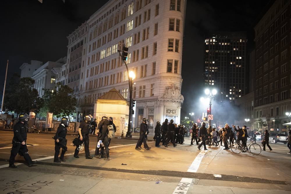 2020/05/29 BlackLivesMatter GeorgeFloyd Protest Oakland, California BlackLivesMatter #GeorgeFloyd #BigFloyd #Oakland #California AbolishThePolice #Justice4Floyd #JusticeforGeorgeFloyd #OPD #RiotPolice OscarGrantPlaza #14&Broadway